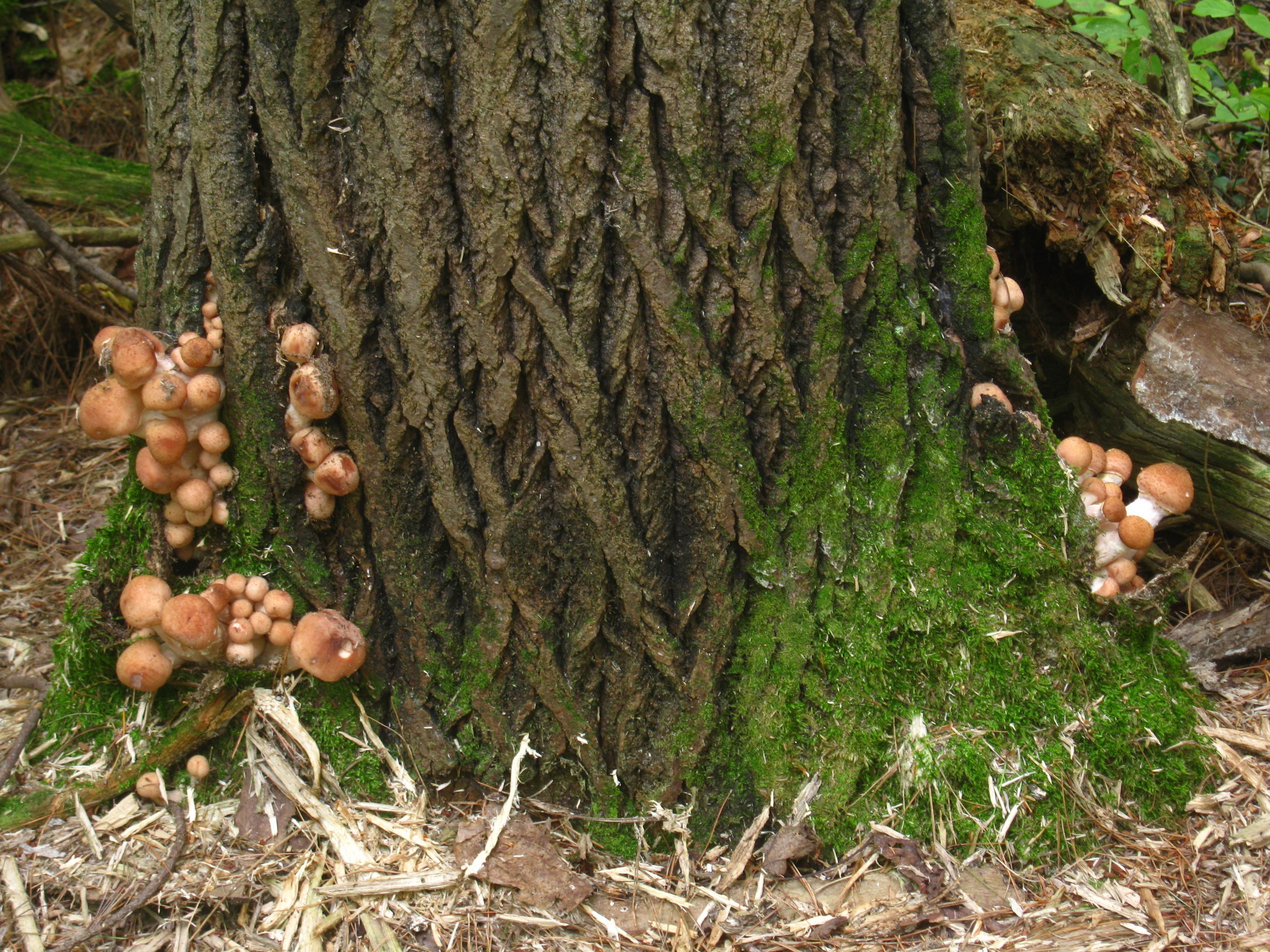 The mushroom Armillaria gallica Marxm. & Romagn. Photographed in a Forest near Elgin Street, Pembroke, Ontario, Canada.